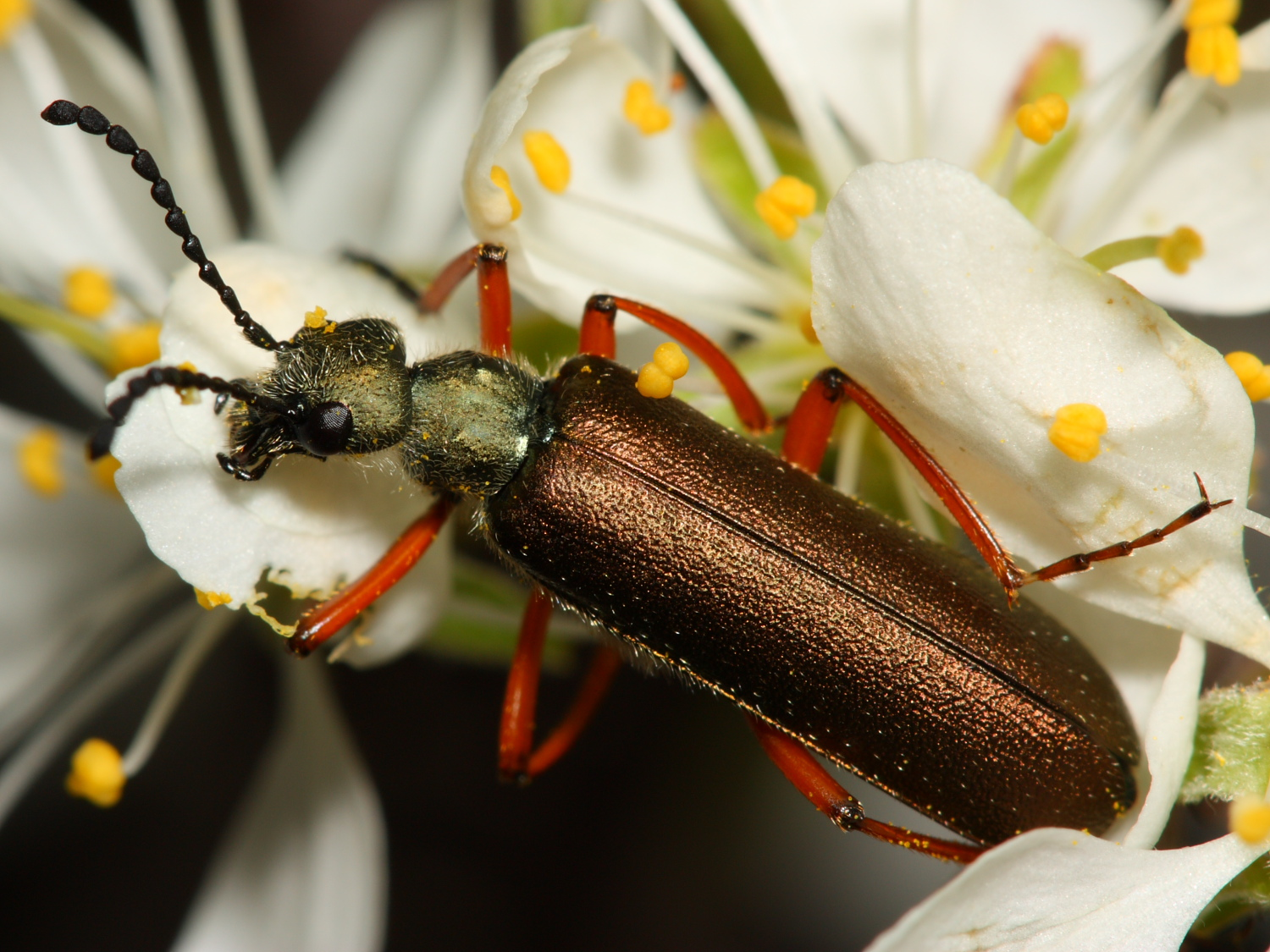 Blister Beetle, Lytta aenea. Shown feeding on blackthorn sloe, Prunus spinosa.